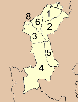 Map of the province Lamphun with the districts (Amphoe) numbered. Mueang Lamphun (อำเภอเมืองลำพูน) Mae Tha (อำเภอแม่ทา) Ban Hong (อำเภอบ้านโฮ่ง) Li (อำเภอลี้) Thung Hua Chang (อำเภอทุ่งหัวช้าง) Pa Sang (อำเภอป่าซาง) Ban Thi (อำเภอบ้านธิ) Wiang Nong Long (King Amphoe) (กิ่งอำเภอเวียงหนองล่อง)